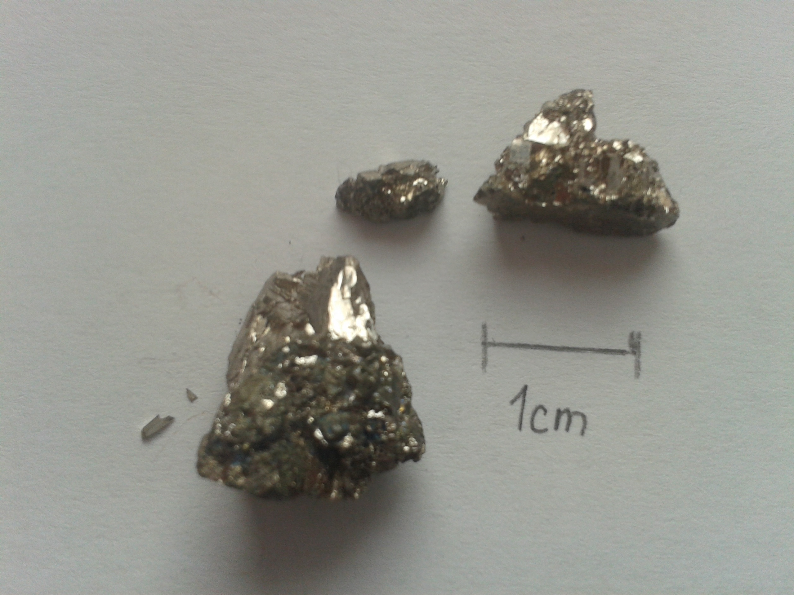 Oxide free crystalline bismuth.